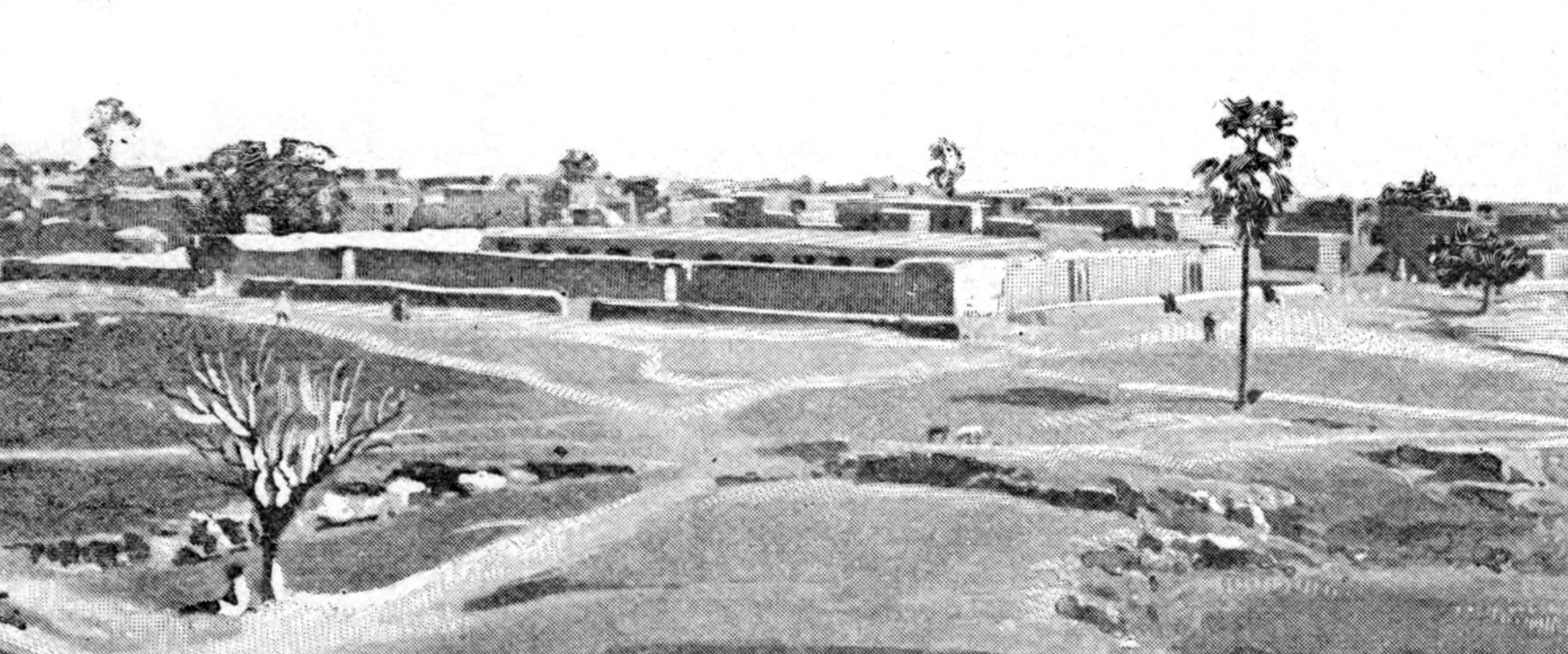 The mosque built by Seku Amadu in Djenné viewed from the west as it looked in 1895.